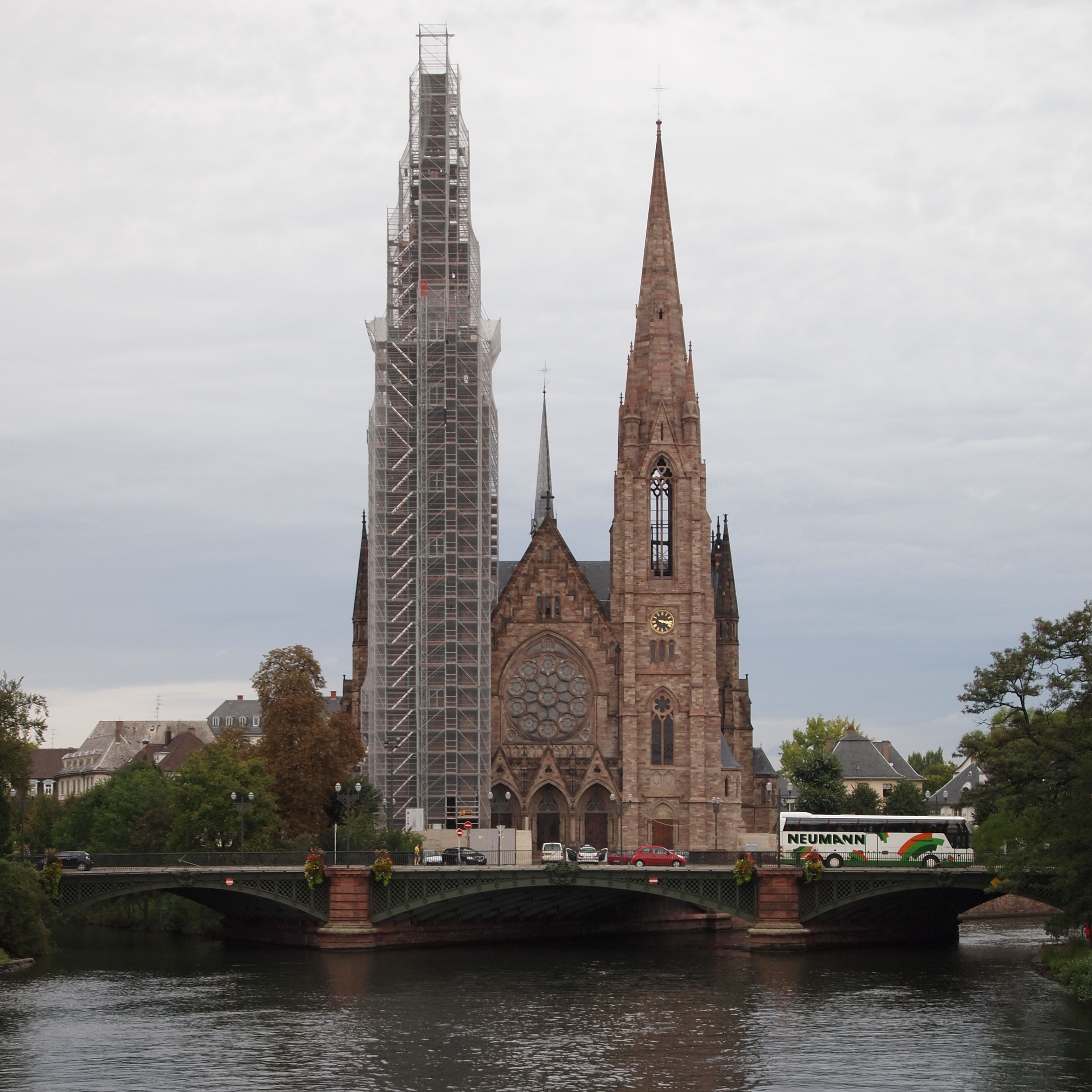 St.Paul church in Strasbourg during restauration in September 2011